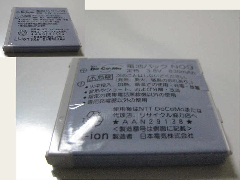 A expanded worn-out lithium-ion battery and new one(upper-left).